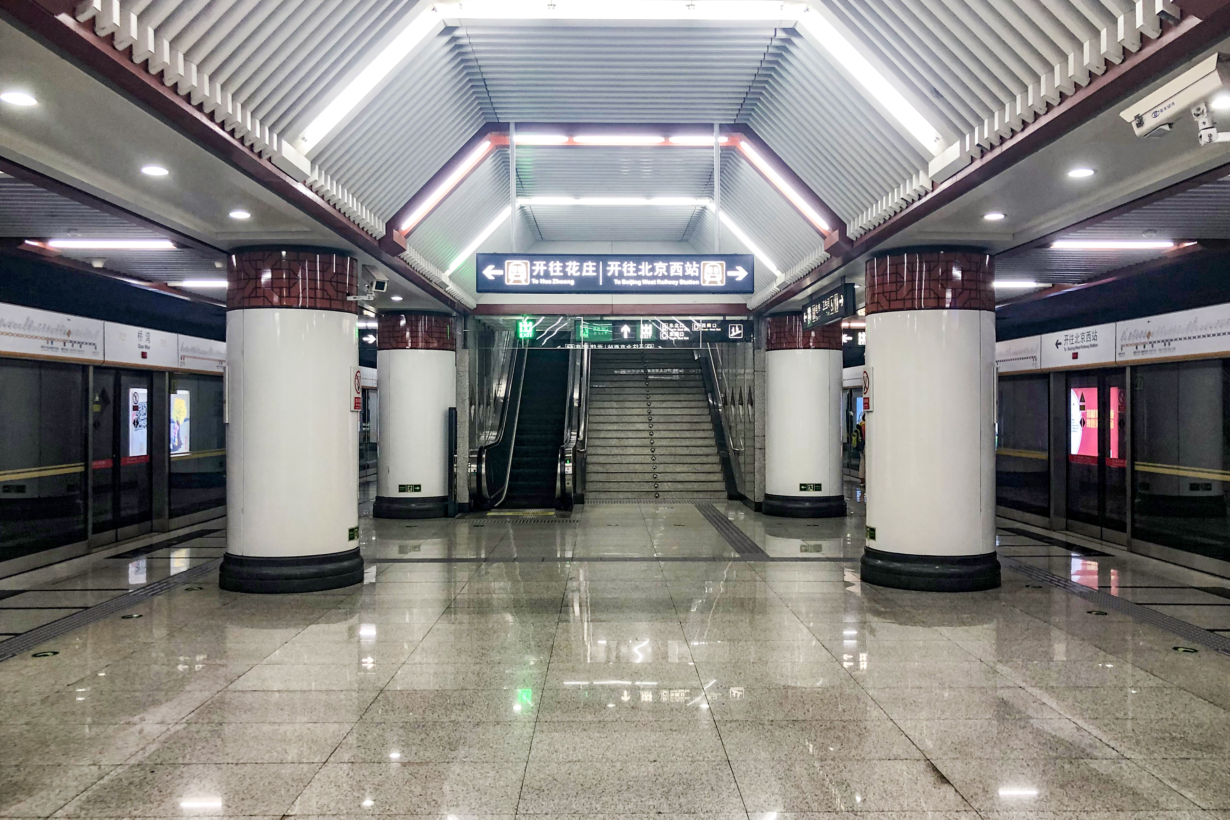 Of course not Chai Wan...